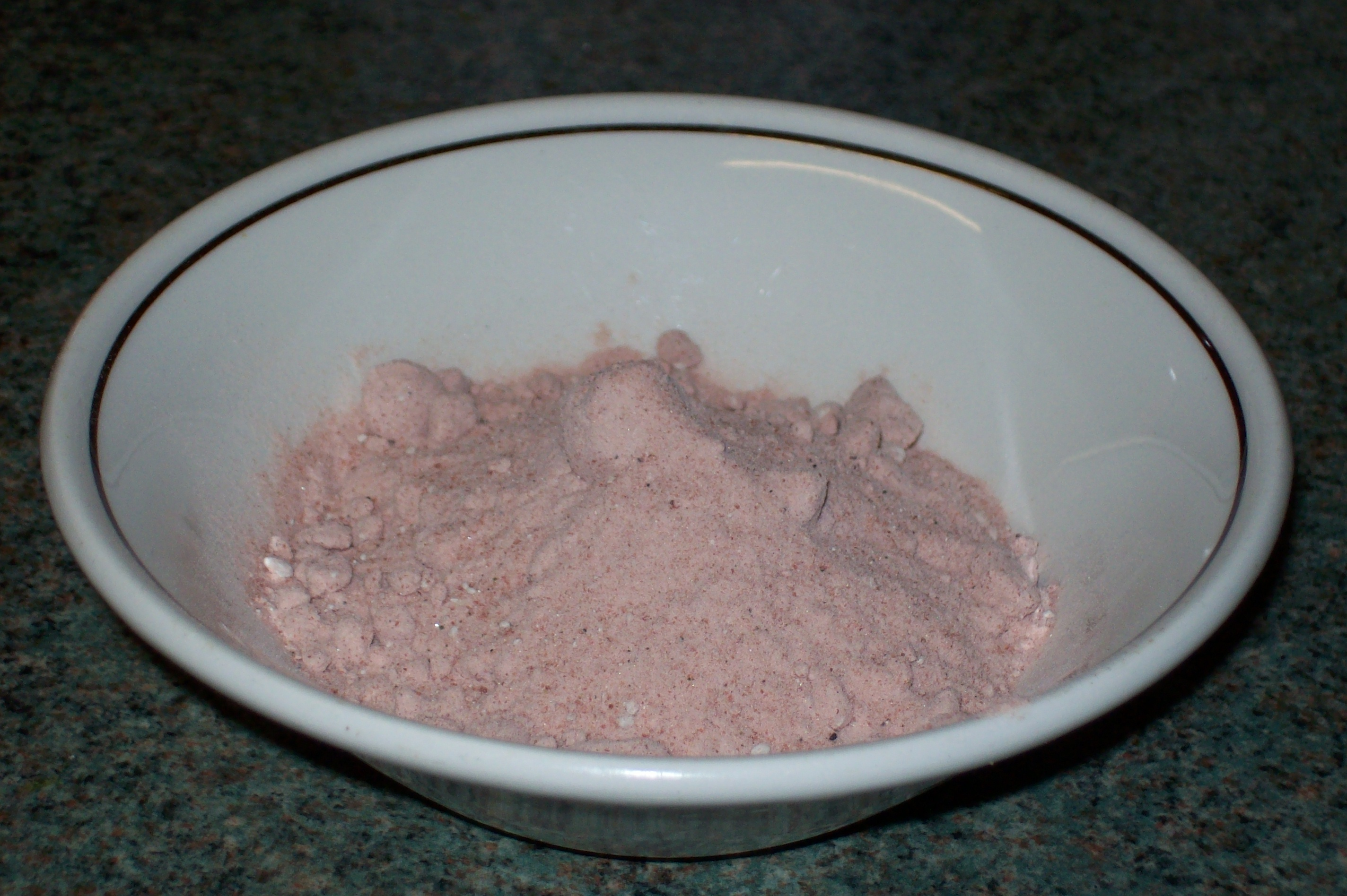 Powdered Kala Namak also known as black salt